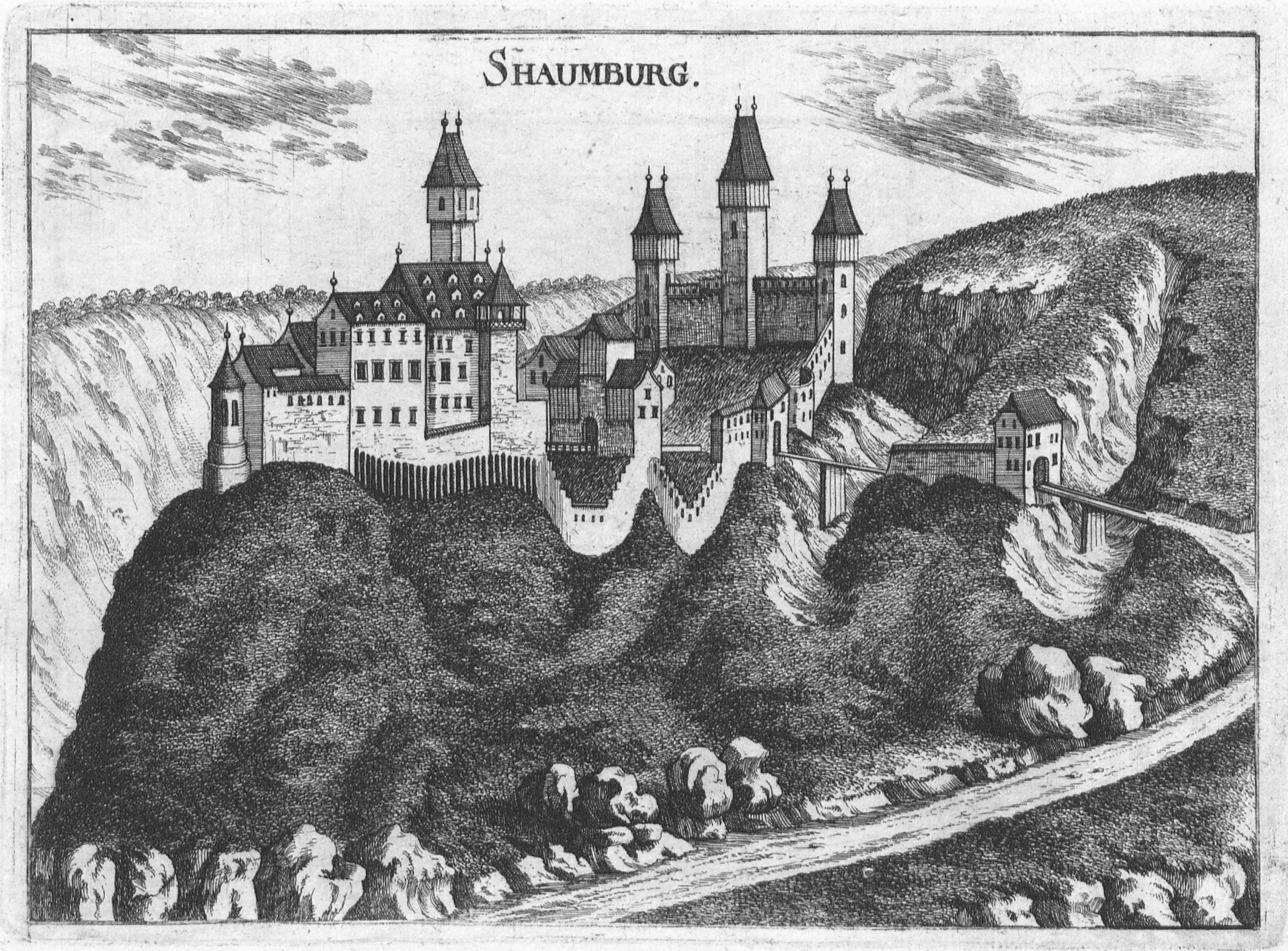 Engraving, view of Schaunburg castle, Upper Austria